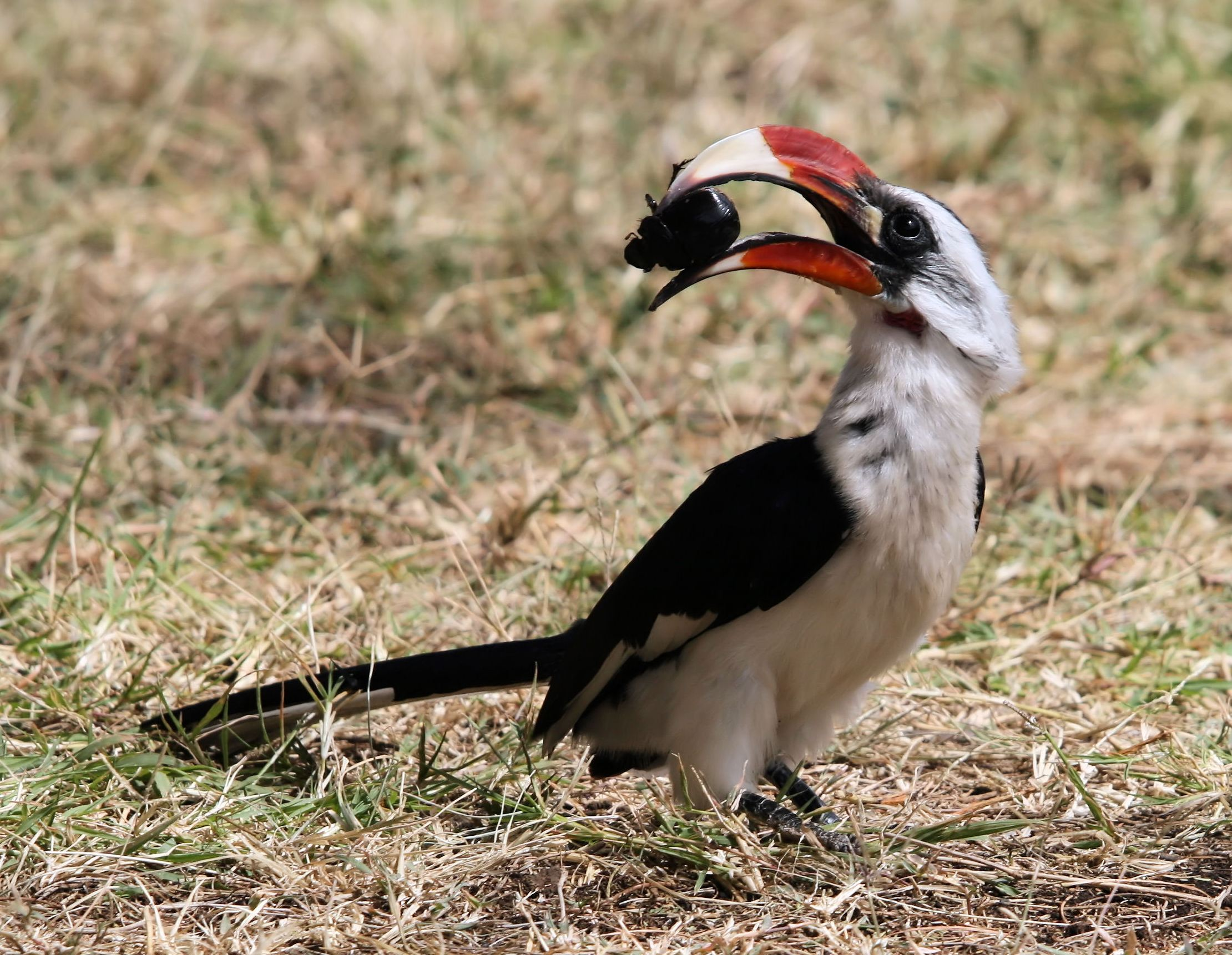 Male Von der Decken´s Hornbill (Tockus deckeni) with unknown bug, picture taken at Serengeti Nationalpark, Tanzania